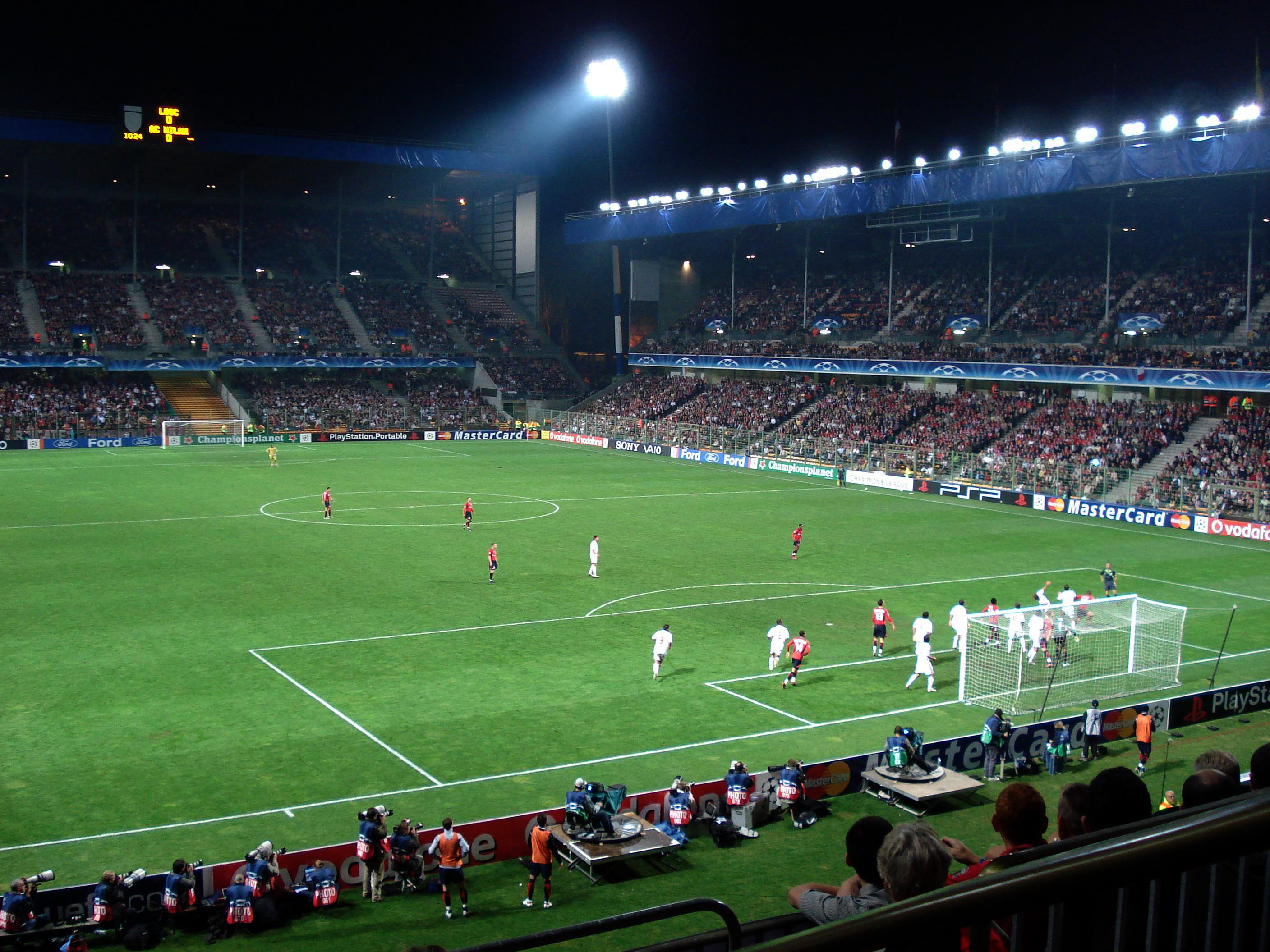 Lille vs AC Milan (Champions League 2006-2007, Bollaert Stadium, Lens)